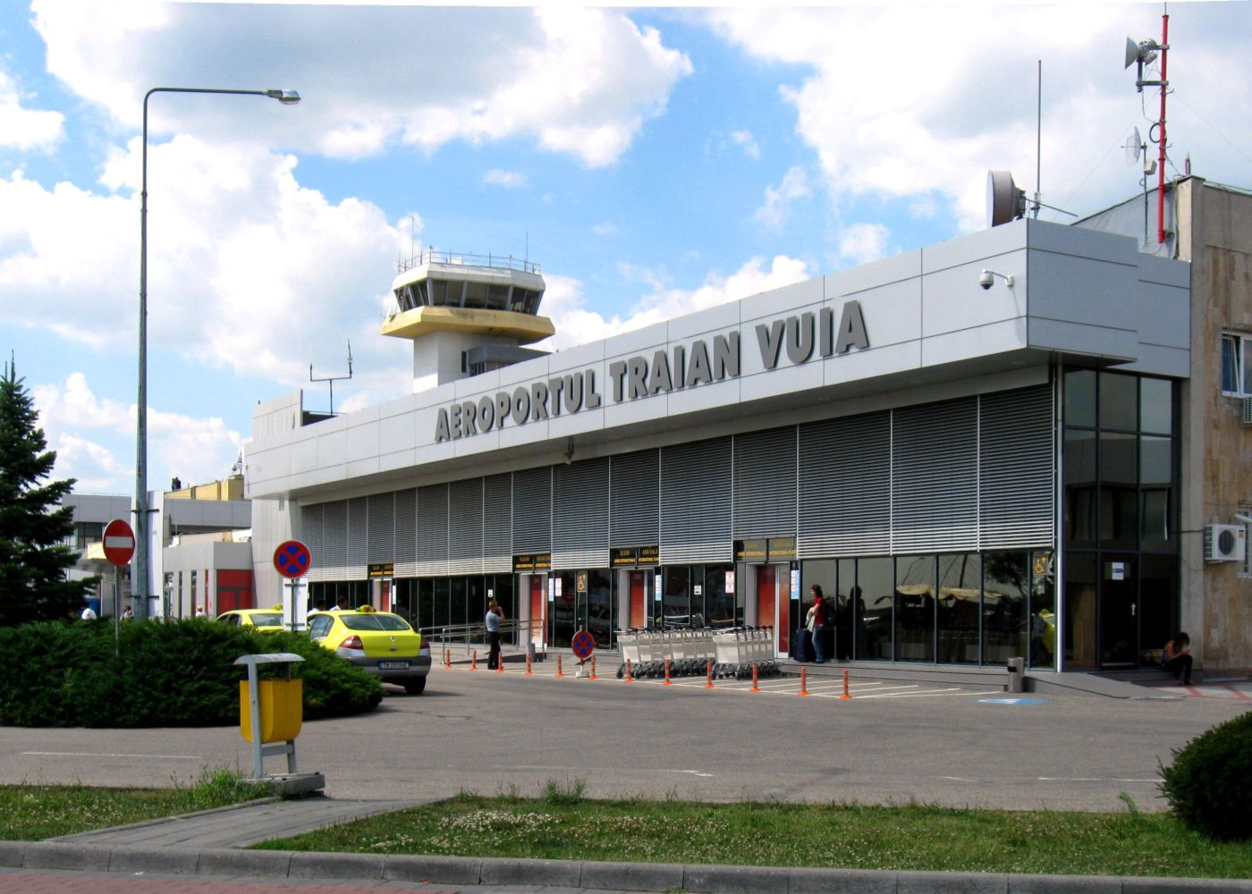 Timisoara International Airport - "Traian Vuia".